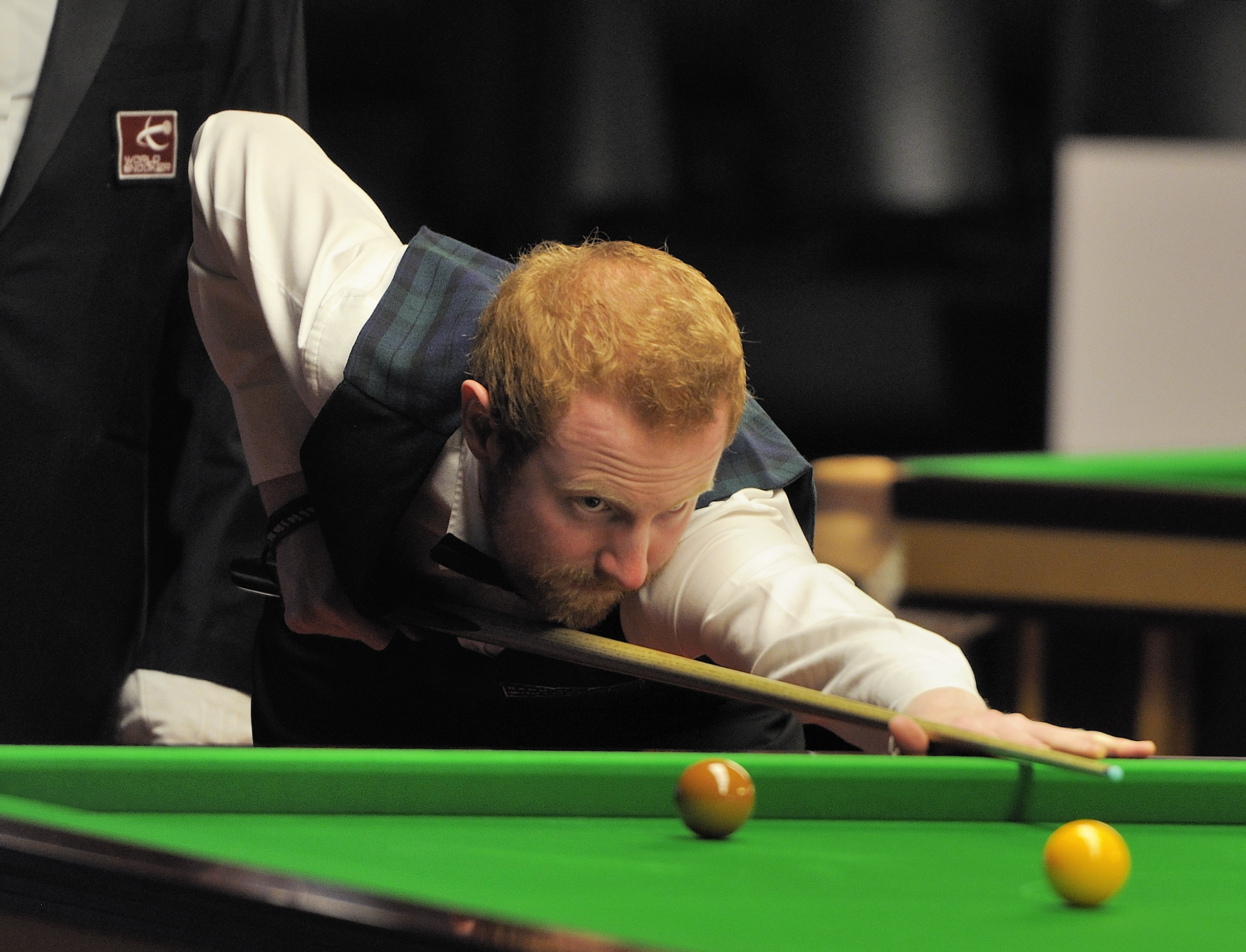 Picture taken in Berlin during the Snooker German Masters in 2014. Anthony McGill.